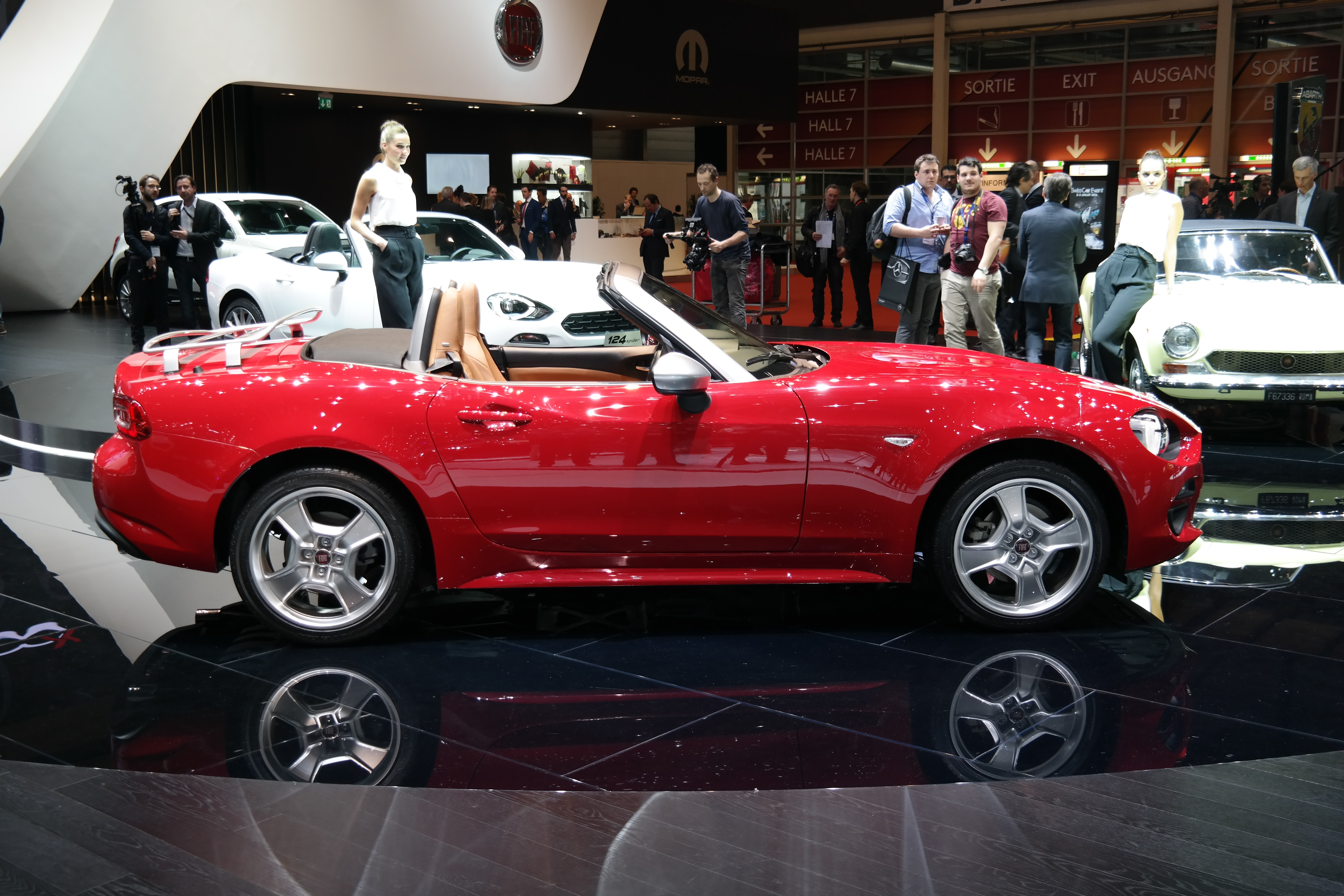 Geneva Motor Show 2016 (photo taken on the first press day)